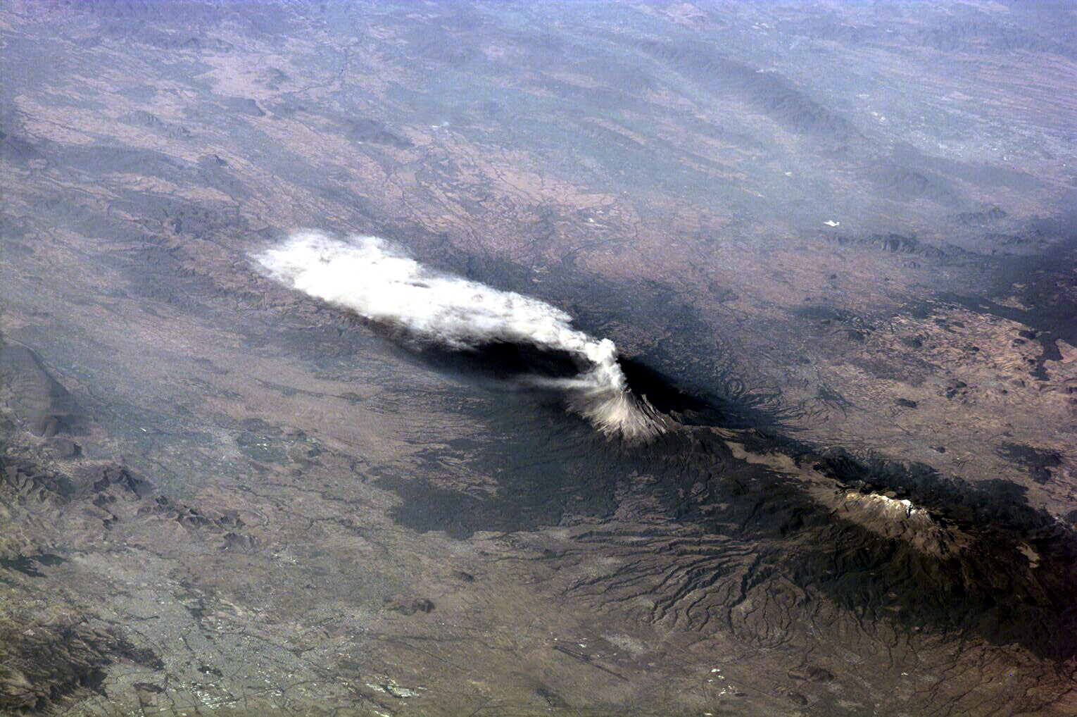 Popocatépetl, or Popo, the active volcano located about 70 km southeast of Mexico City, sends a plume south on January 23, 2001. The astronaut crew on the International Space Station Alpha observed and recorded this image as they orbited to the northeast of the volcano. Popo has been frequently active for six years. On this day, the eruption plume reportedly rose to more than 9 km above sea level [for reference, Popo’s summit elevation is 5426 m (17,800 feet)]. Note the smaller ash plume below the main plume (arrow). The perspective from the ISS allowed the astronauts this unique 3 dimensional view. Popo is situated between two large population centers: Mexico City (more than 18 million people, and just off the image to the right) and Puebla (about 1.2 million people). The region’s dense population provides the potential for extreme impacts from volcanic hazards. Recent eruptions have been frequent, and have resulted in evacuations around the mountain.